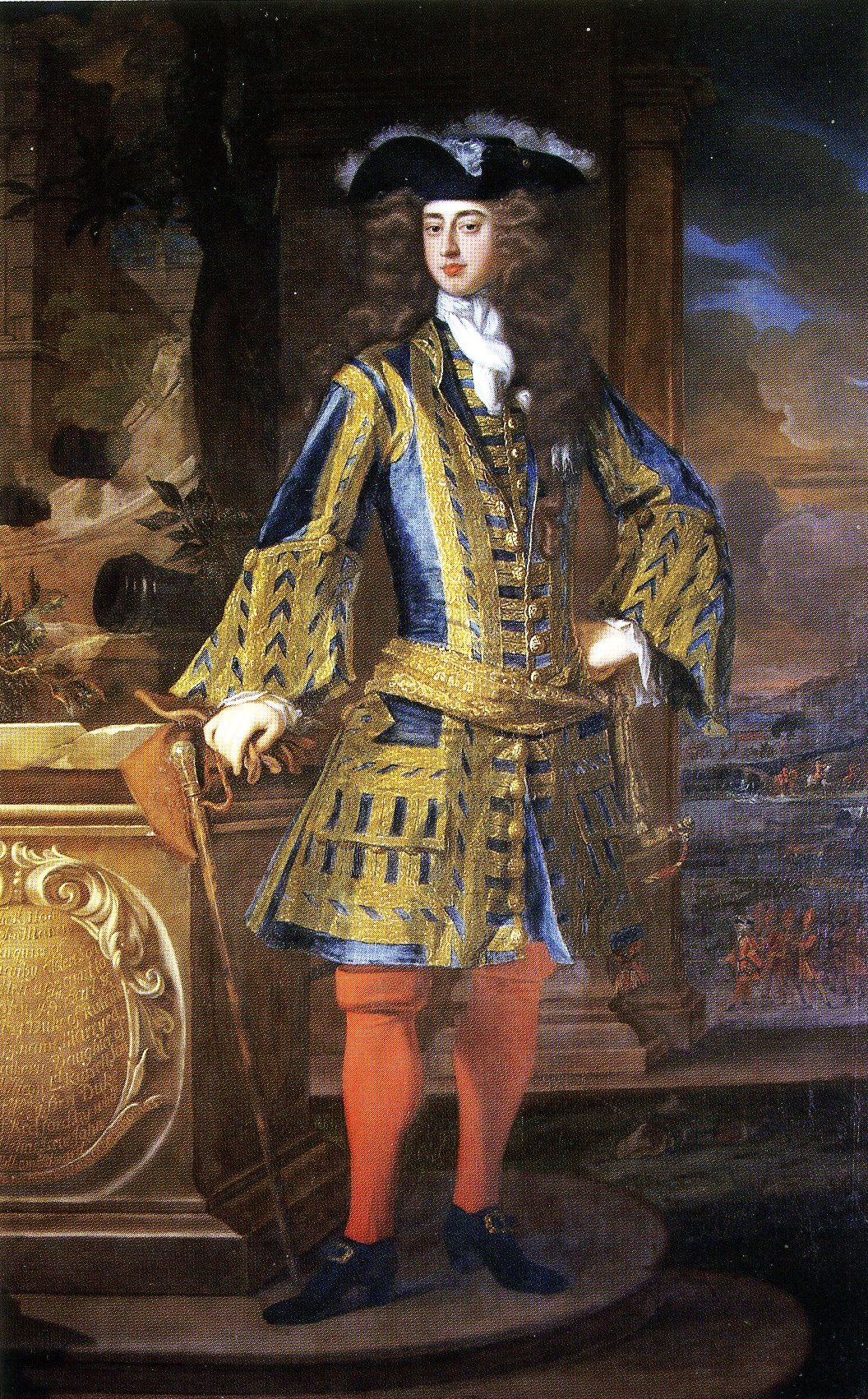 Portrait of John Manners, 2nd Duke of Rutland (1676-1721)